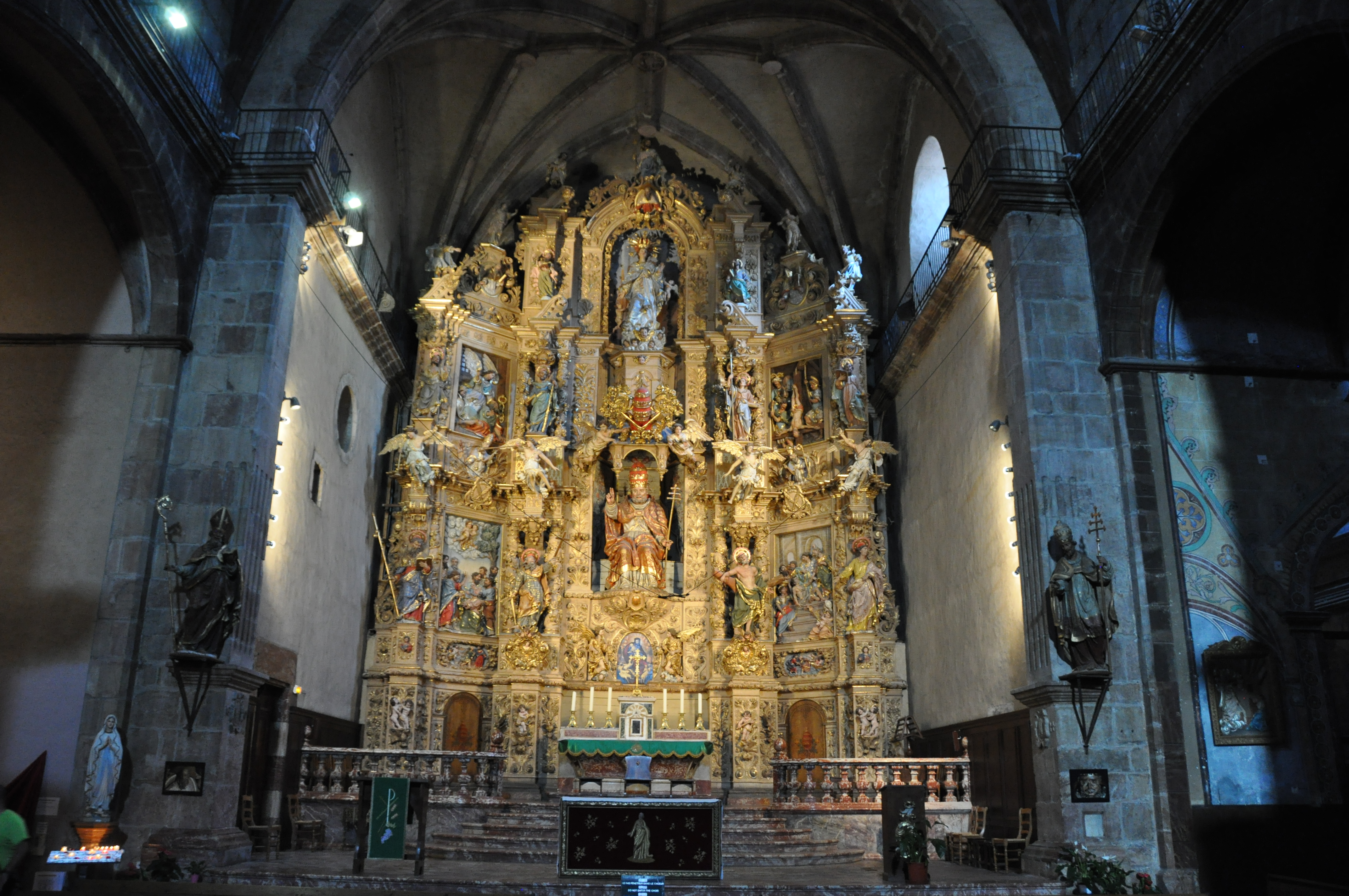 Prada. Parish Church. Altarpiece dedicated to St. Peter. 1697-1699. Josep Sunyer, sculptor